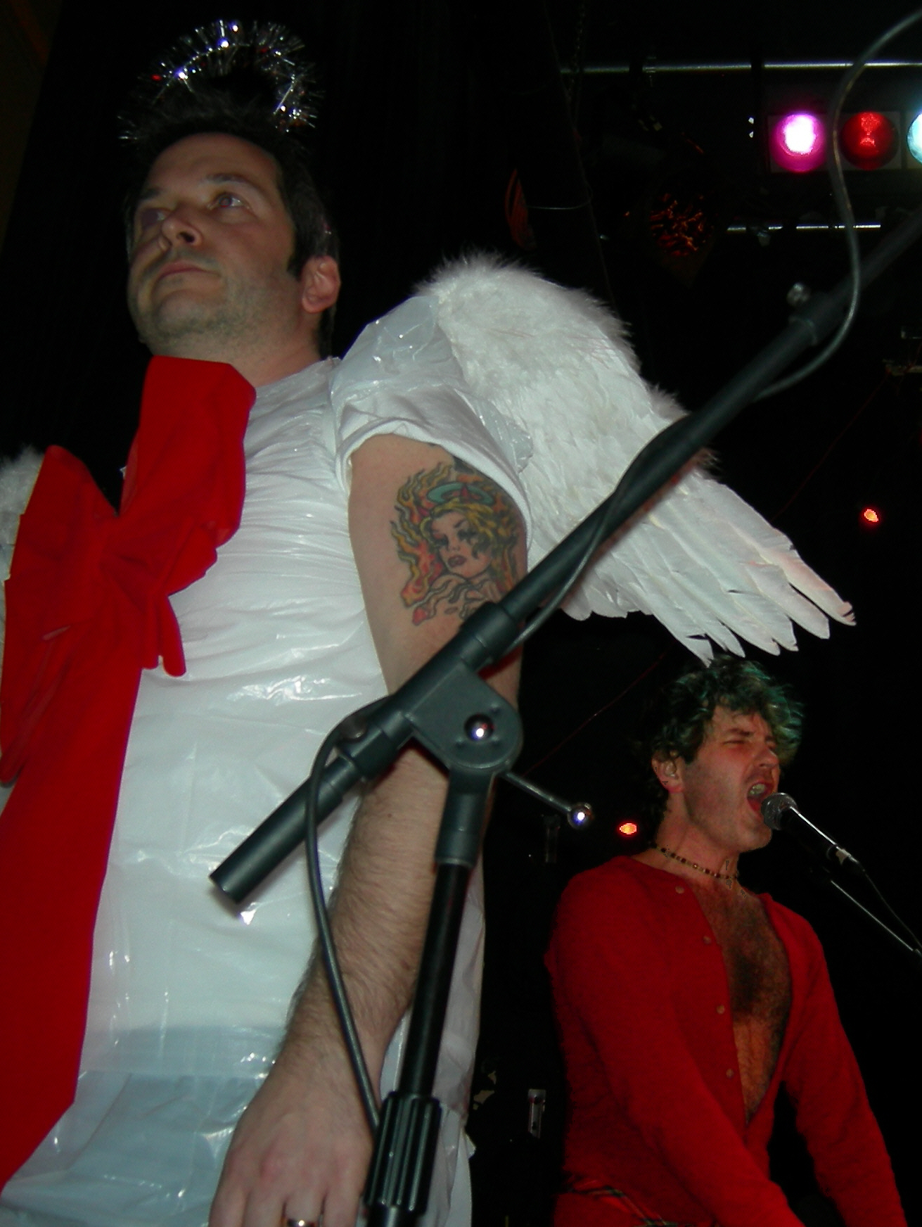 A "Fallen Angel" and keyboardist Mark Nichols. The Squirrels XXXmas Show, at the Tractor Tavern in the Ballard neighborhood of Seattle, Washington.